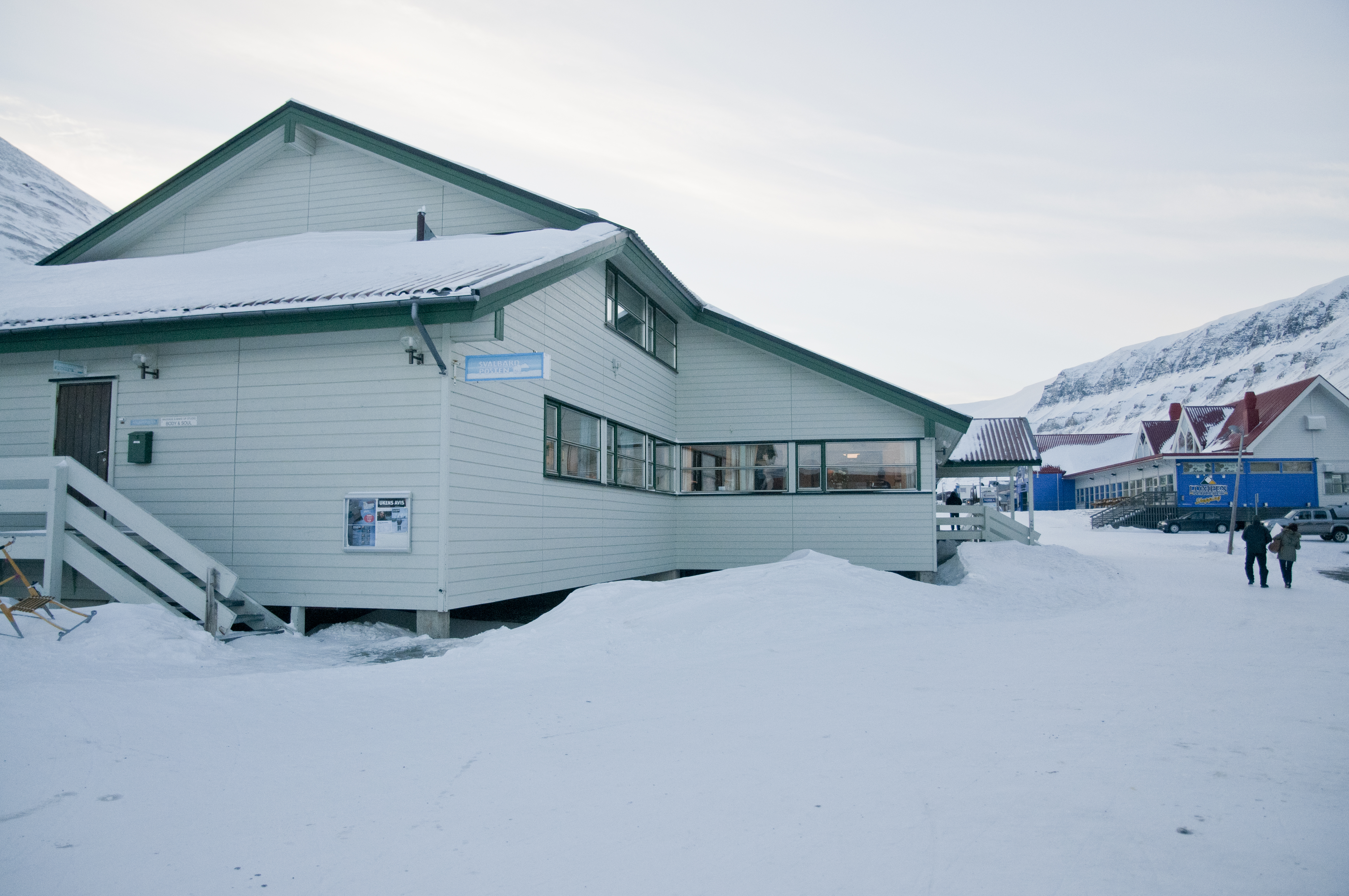 The building where the local newspaper Svalbardposten is located. In Longyearbyen, Svalbard.